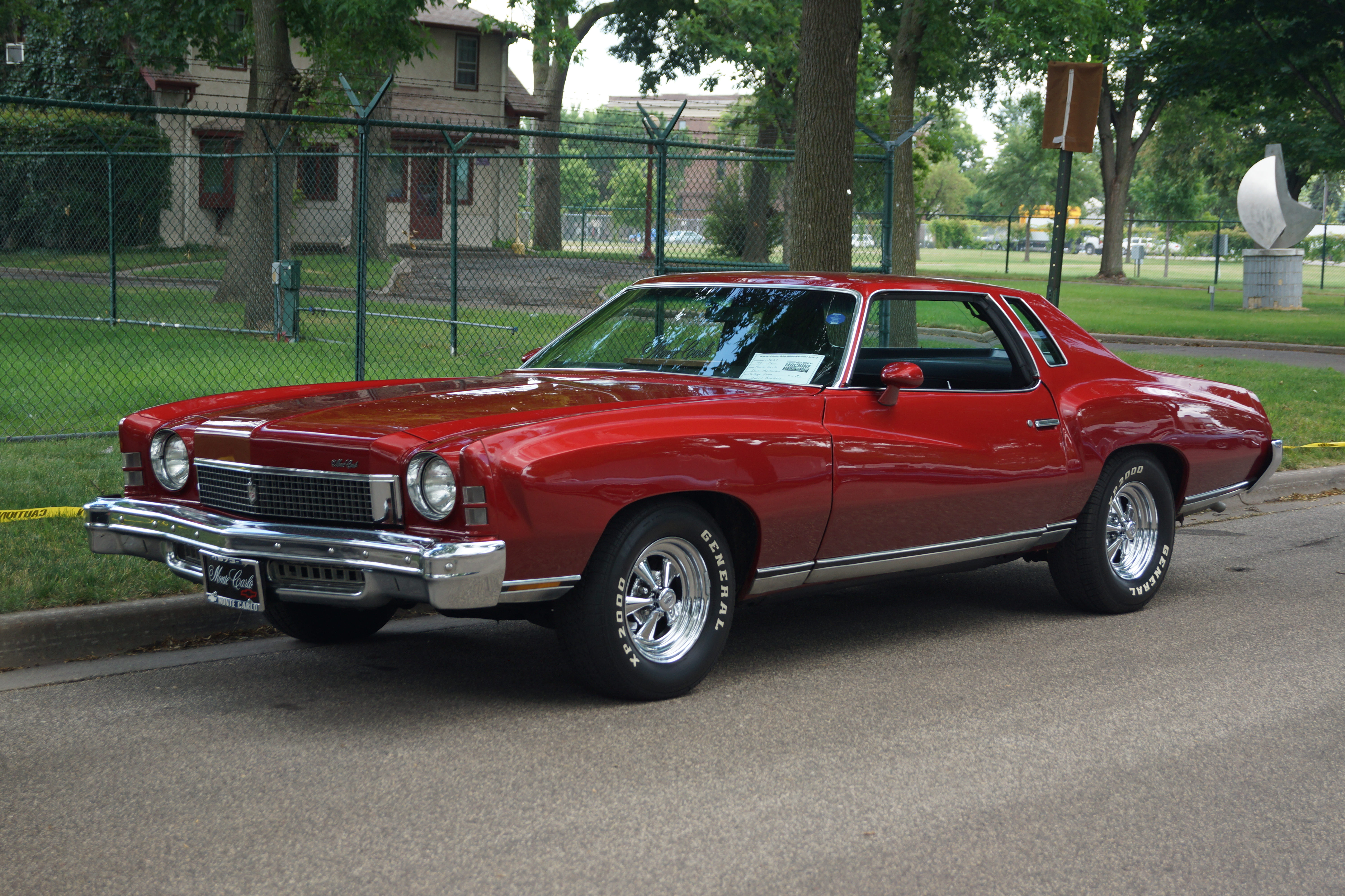 Click here for more car pictures at my Flickr site. O'Reilly Auto Parts Street Machine Summer Nationals Minnesota State Fairgrounds St. Paul, Minnesota July 2016